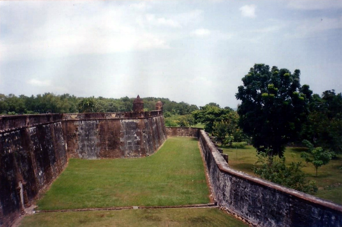 San Fernando de Omoa, 18th century fort at Omoa, Honduras.